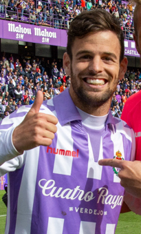 Real Valladolid - Valencia C. F., 38th fixture of the 2018-19 La Liga, May 18, 2019.